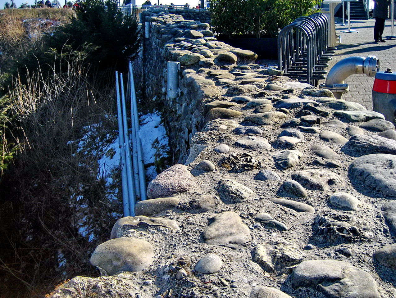 Zürich - Uetliberg : Uetliberg castle.